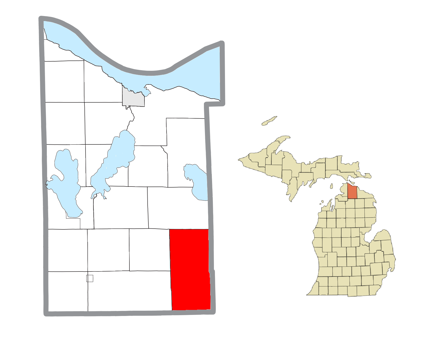 Forest Township, MI